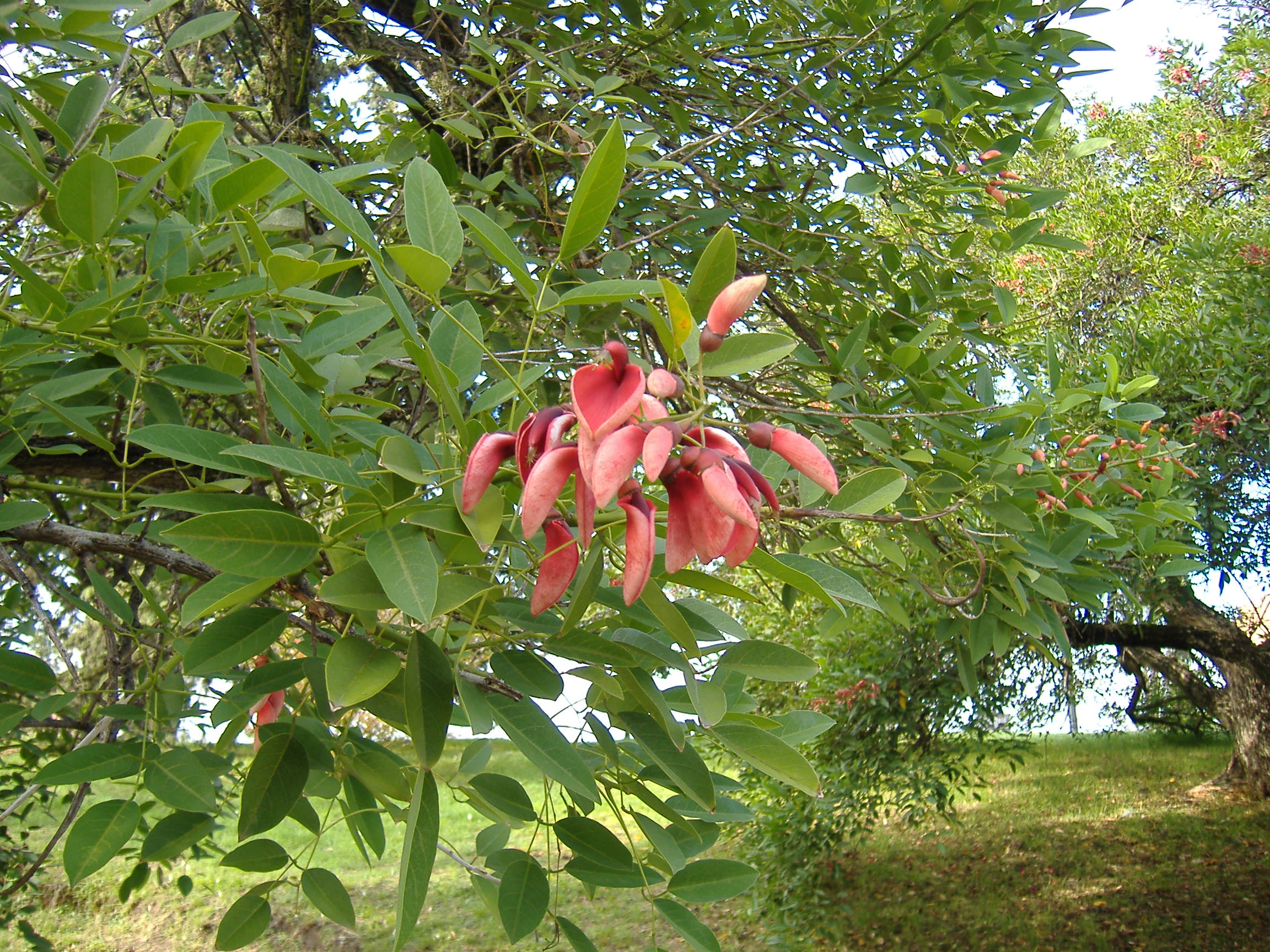 Erythrina crista-galli, the national flower of Argentina. This photo was taken in Rosario, Argentina, by me, Pablo D. Flores, on 1 March 2006.